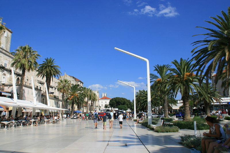 I have taken this image myself, a few days ago. I release it to the public.